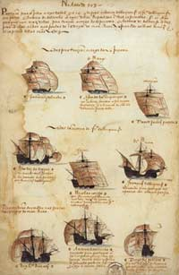 Depiction of the 5th Portuguese India Armada (1503 fleet led by Afonso de Albuquerque, Francisco de Albuquerque and António de Saldanha) from the Livro das Armadas (Academia de Ciencias de Lisboa)